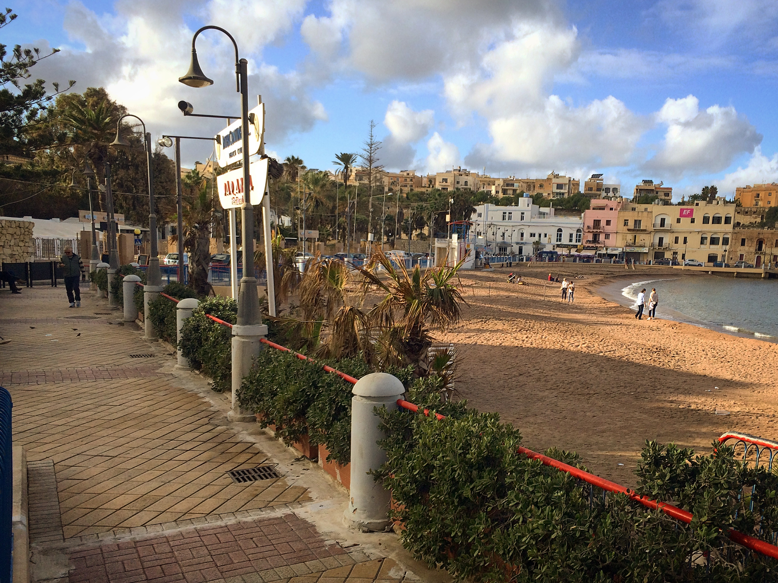 Beach next to a bar in Paceville, Malta